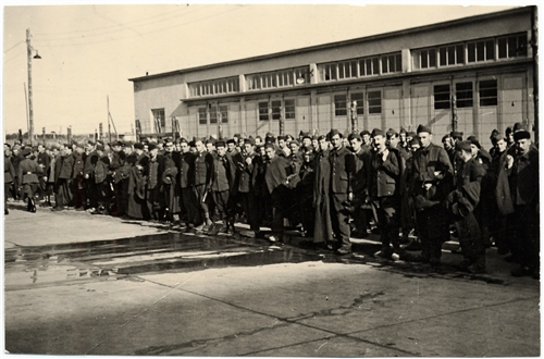 Guerre 1939-1945. Greifswald. Stalag II C, camp de prisonniers de guerre.. Appel du soir War 1939-1945. Greifswald. Stalag II C, prisoners of war camp. Night call up.